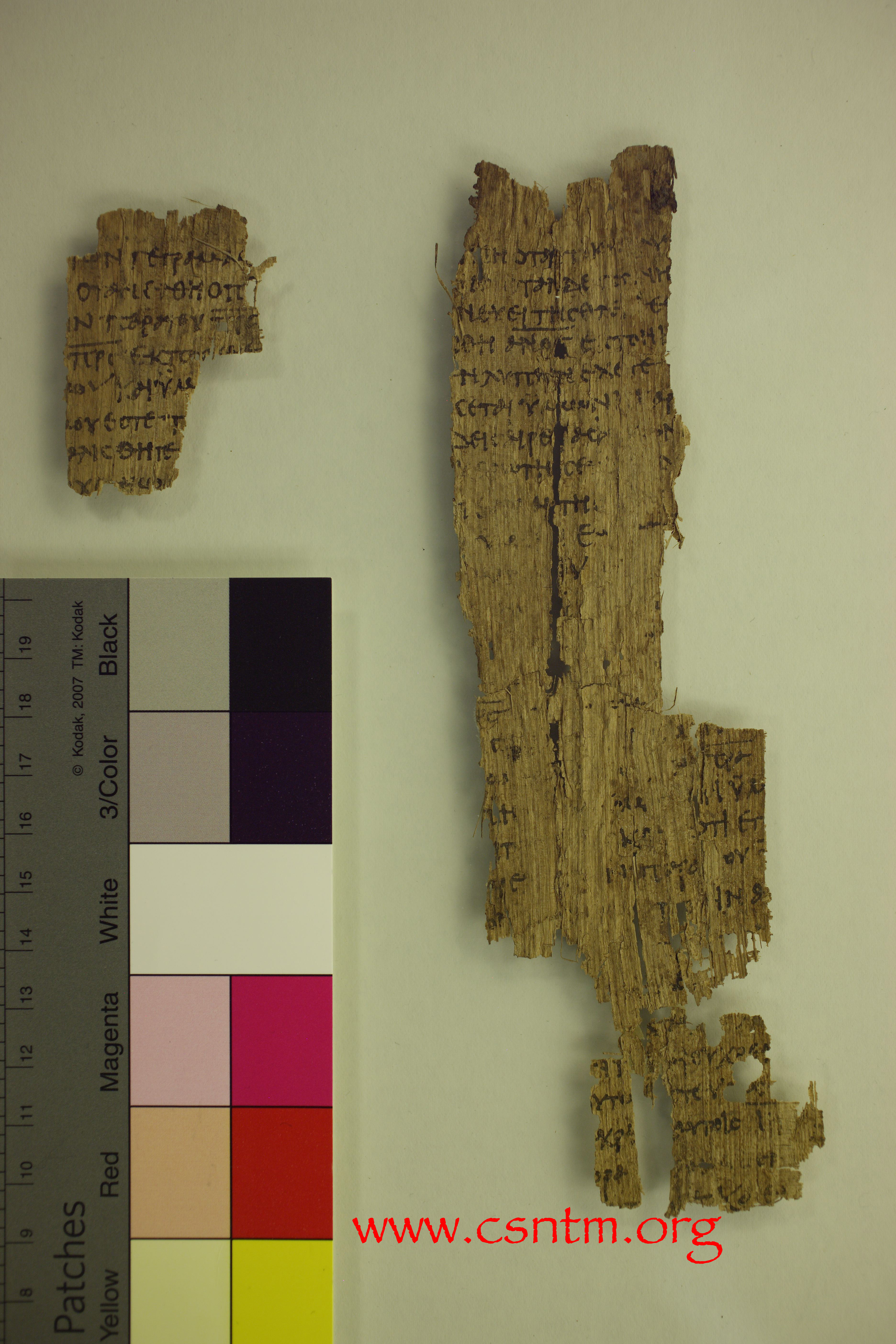 page recto with text of John 15:25-16:2